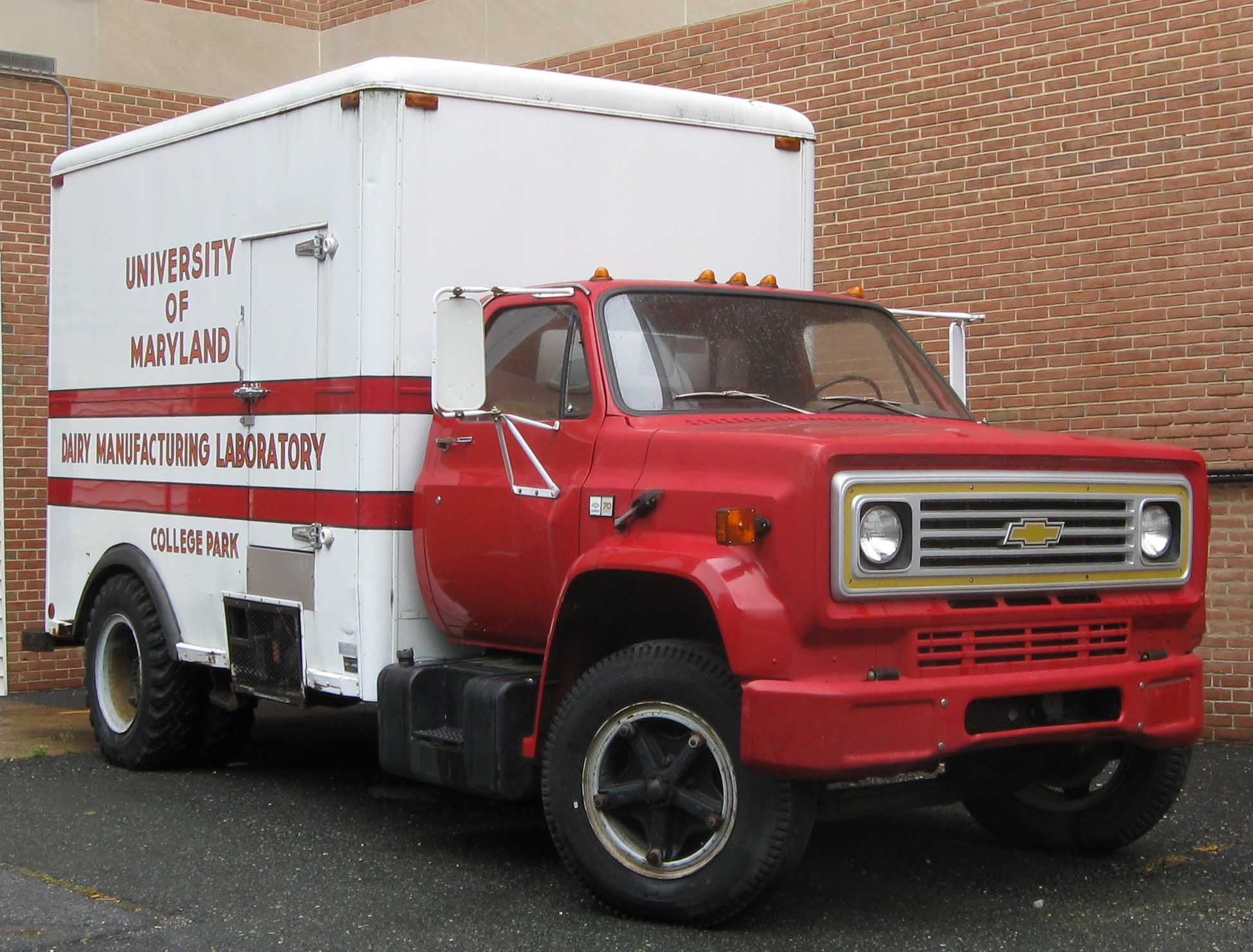 Chevrolet 70 box truck photographed in College Park, Maryland, USA.